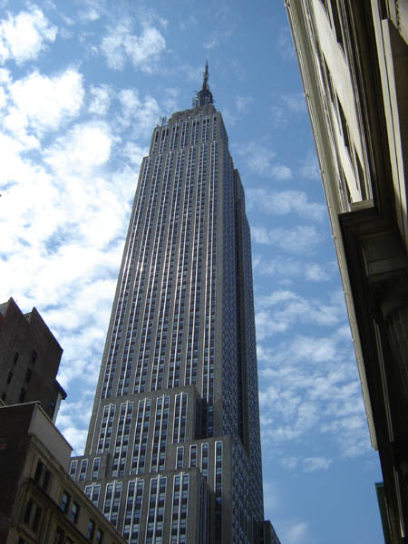 Empire State Building